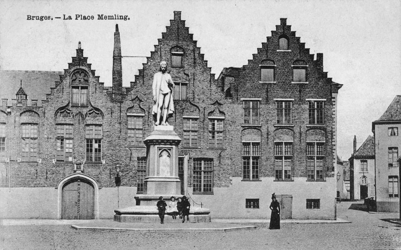 Hans Memlingplaats Brugge met standbeeld Memling, ca 1900